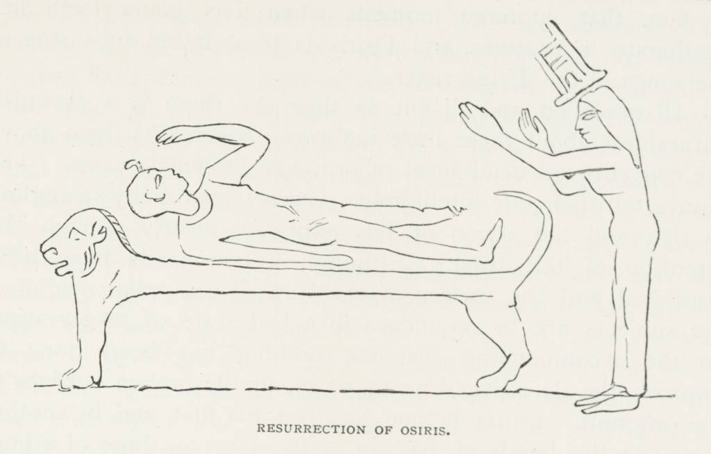 Figure lies on couch with left arm and leg upraised, another stands at his feet with outstretched arms.